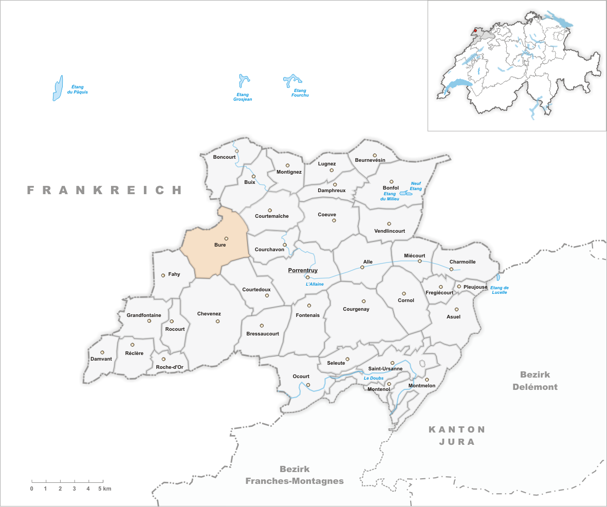 Municipality Bure Artist: Tschubby